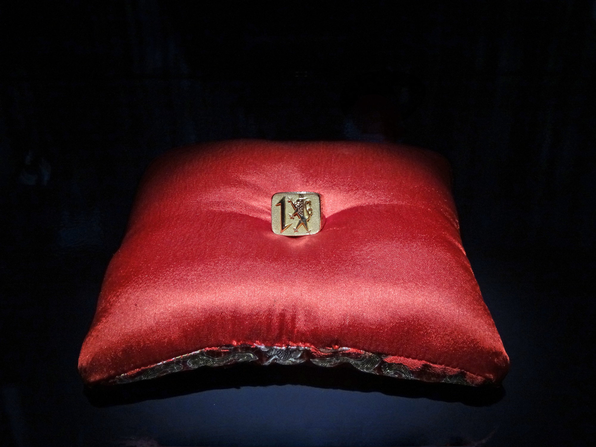 Ring of honor of the city of Mannheim